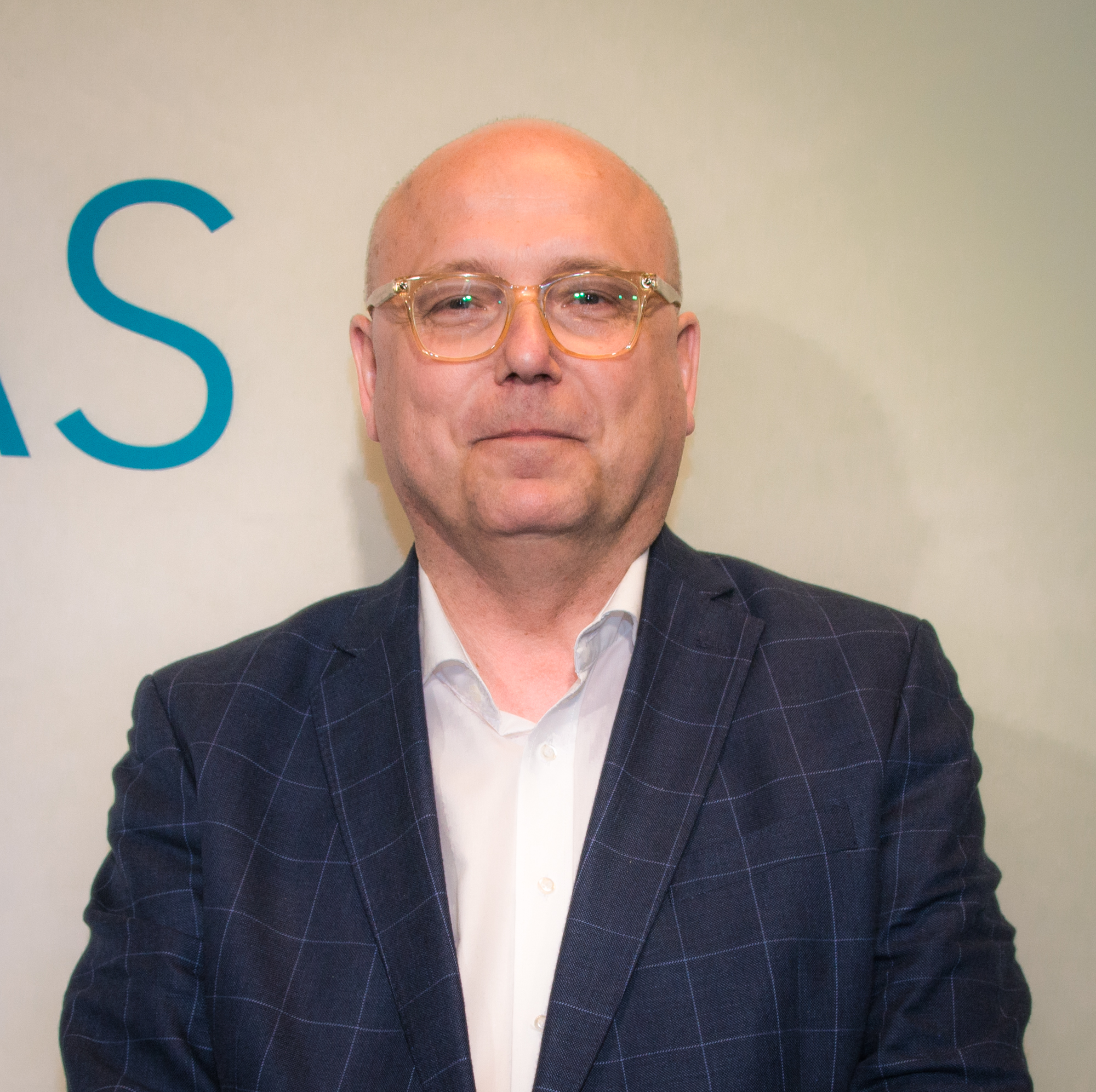 Magnus Ranstorp on the red carpet entering the Berwaldhallen in Stockholm on June 13, 2019.